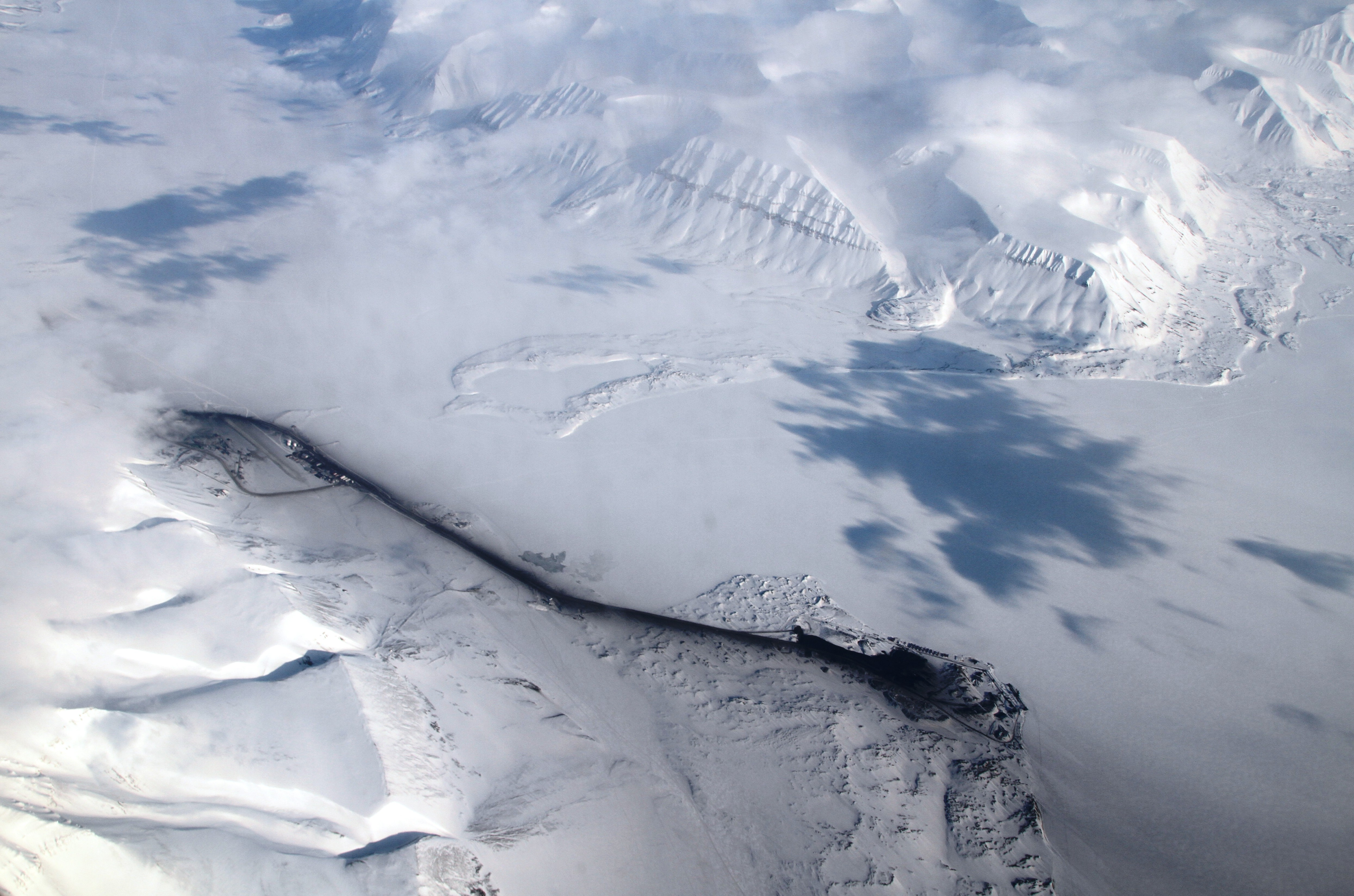 Image taken from airplane, of the mining settlement "Sveagruva" ("Svea") in Central Spitsbergen, situated South of the Bragamzavågen bay.